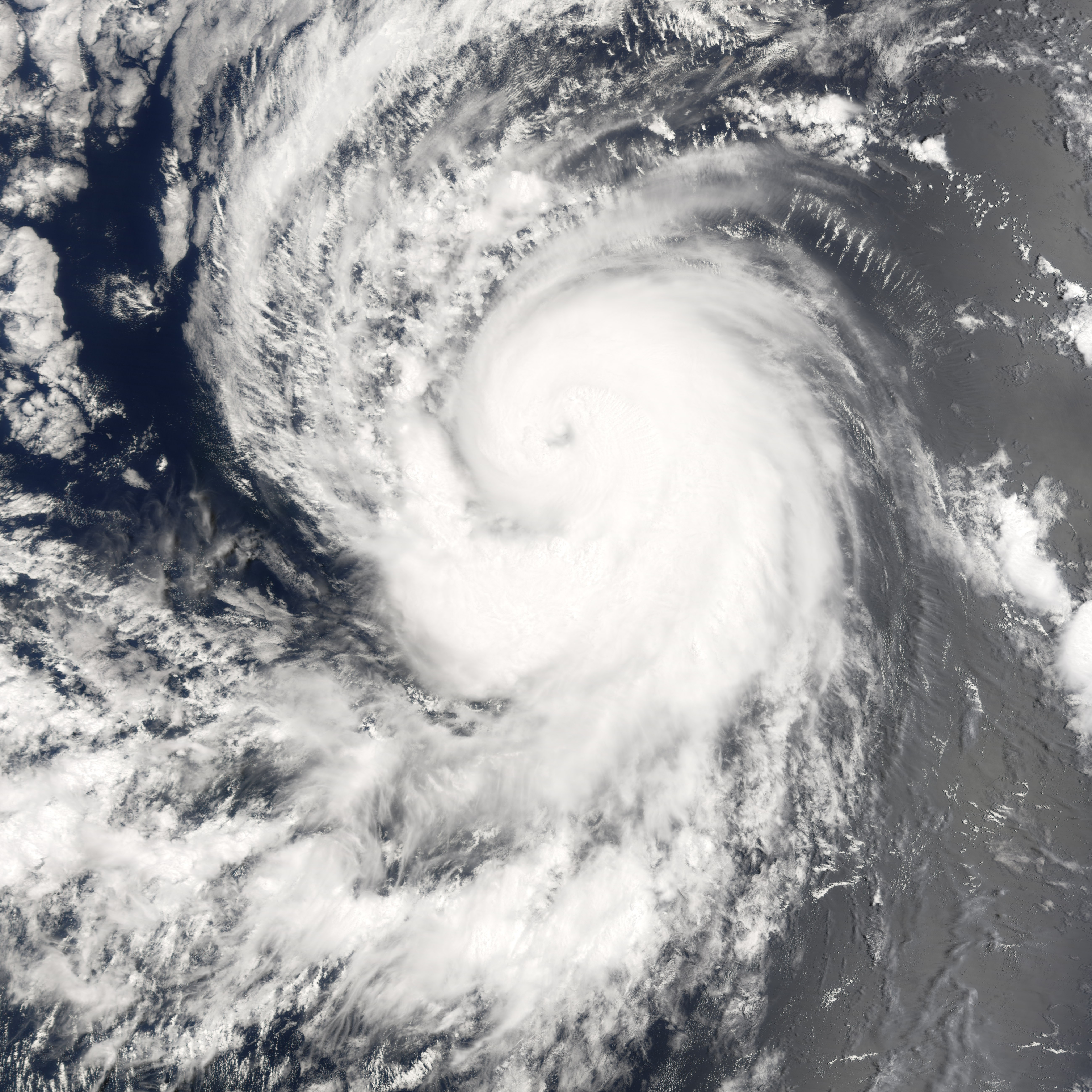 Hurricane Hector formed in the eastern Pacific on August 15, 2006. Within a day, it had become organized enough to be classified as a tropical storm and earn its name. As of August 18, Hector was a moderately powerful Category 2 hurricane, traveling across the eastern Pacific. At that time, it was not expected to develop much additional power or to make landfall. This photo-like image was acquired by the Moderate Resolution Imaging Spectroradiometer (MODIS) on the Terra satellite on August 17, 2006, at 10:30 a.m. local time (18:30 UTC). Hurricane Hector at the time of this image was a large and well-developed system. The storm had a closed (cloud-filled) but clearly defined eye, with a distinct eyewall. Hurricane Hector had sustained winds of around 160 kilometers per hour (100 miles per hour), according to the University of Hawaii’s Tropical Storm Information Center.